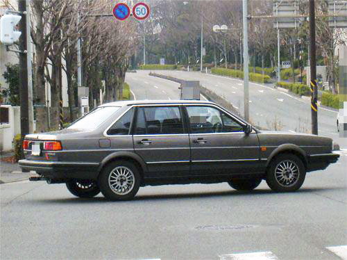 Japanese 1984 Volkswagen Santana Gi5 produced by Nissan